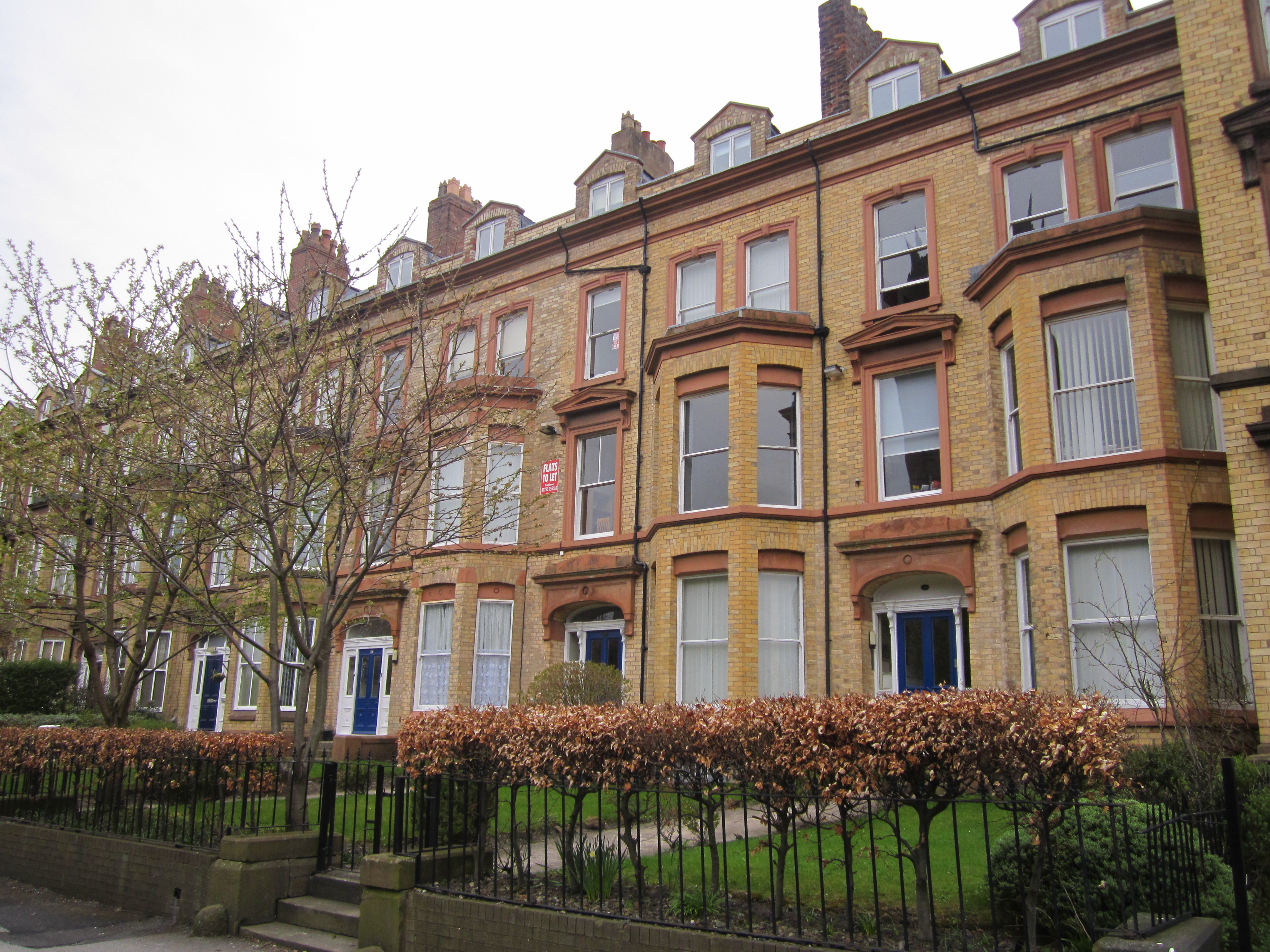 Photo taken at Gambier Terrace, Liverpool, England.